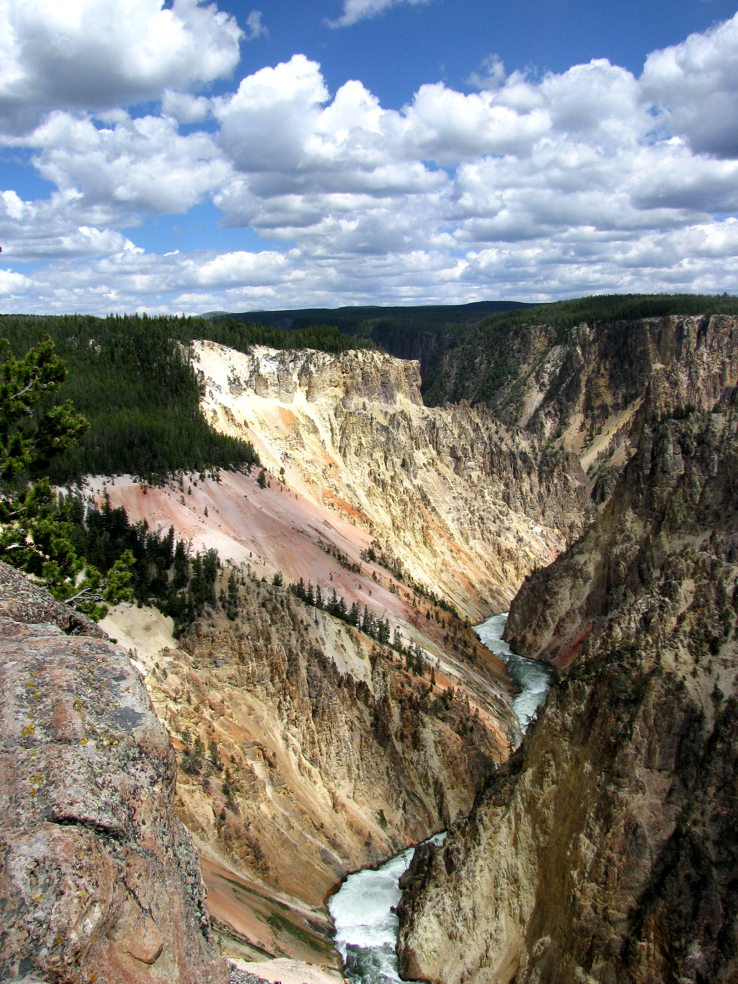 Grand canyon located in the Yellowstone National Park